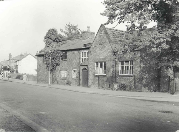 Jonathan Robinson School, Church Road, Cheadle Hulme. From the Farmer Collection.